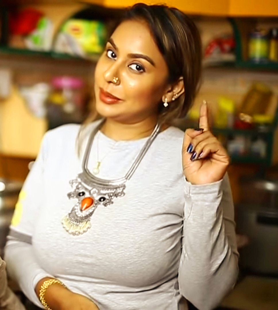 Photo shoot